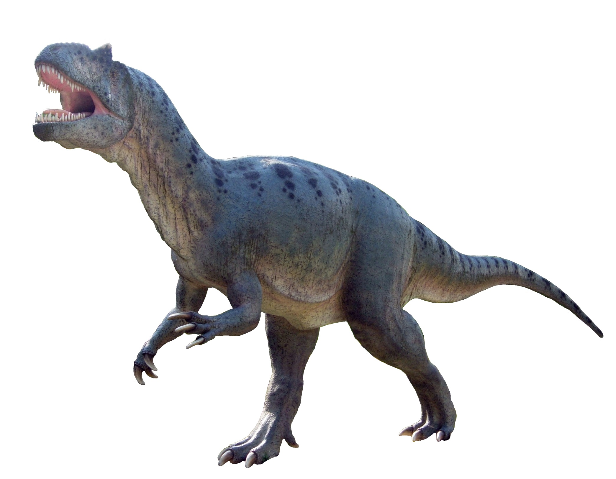 Model of allosaurus in Bałtow, Poland